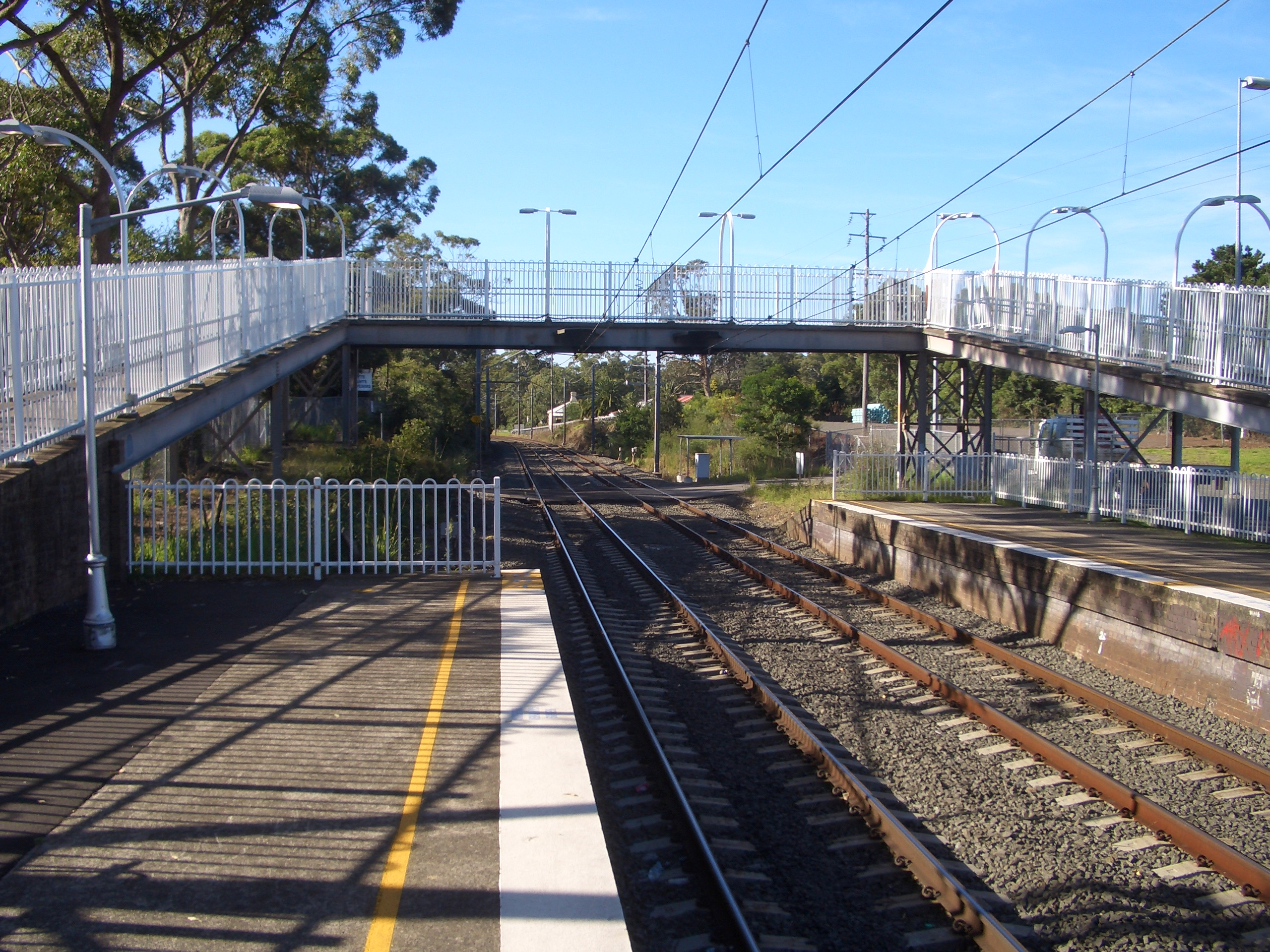 Heathcote Railway Station bridge